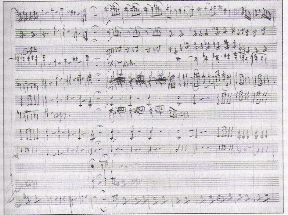 Manuscript page of Piano Concerto No. 21 in C major KV 467, by Mozart